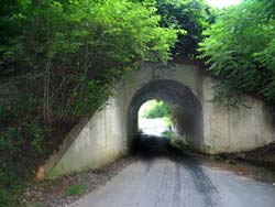 Bunnyman bridge.